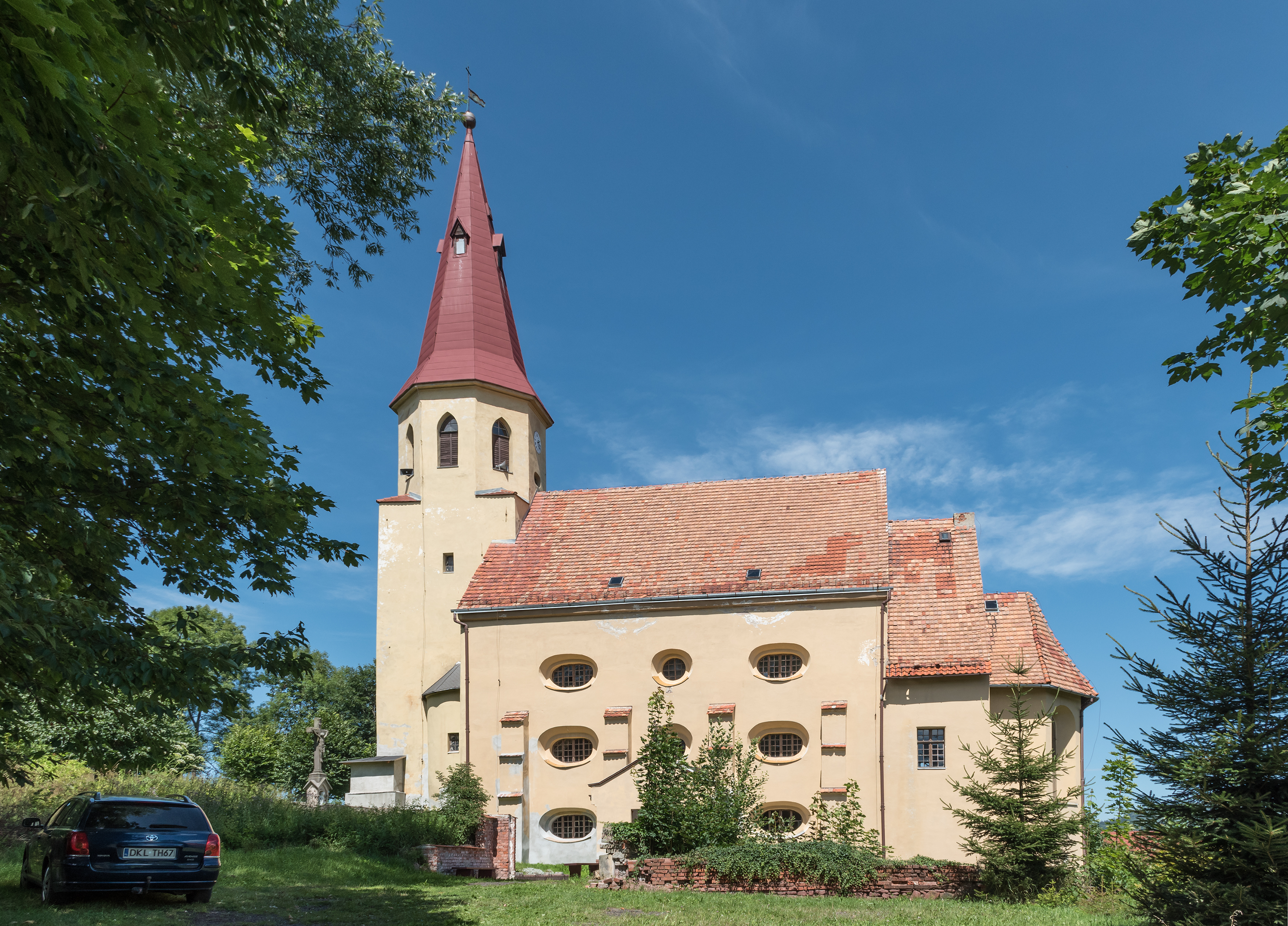 Church of the Assumption in Głuszyca Górna